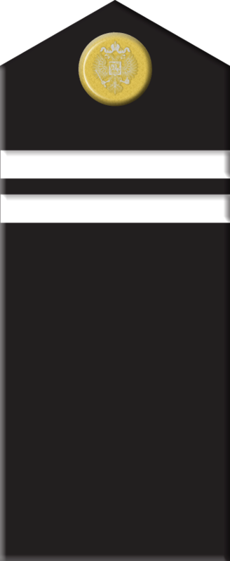 Rank insignia of the Imperial Russian Navy (IRB) until 1917, here "Quartermaster" .